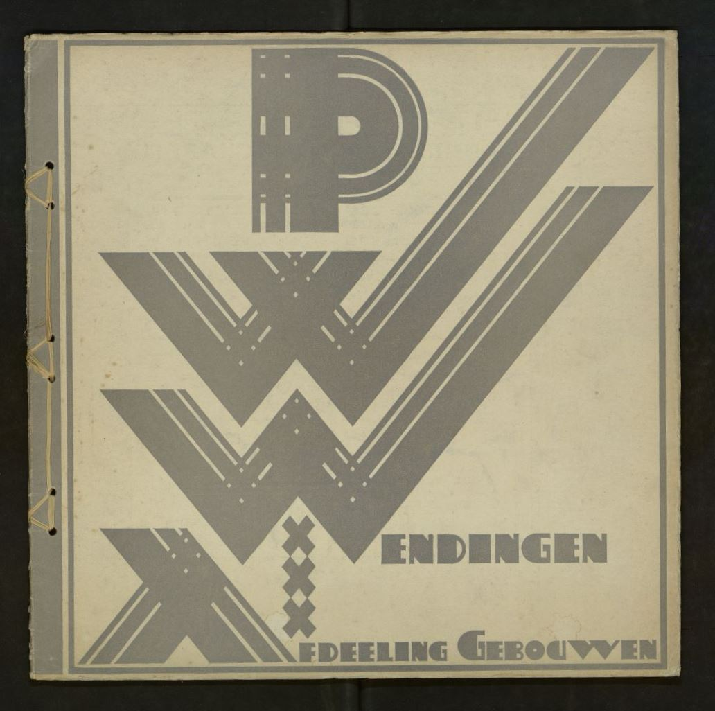 Cover of art magazine Wendingen, 1927 (8: 11)